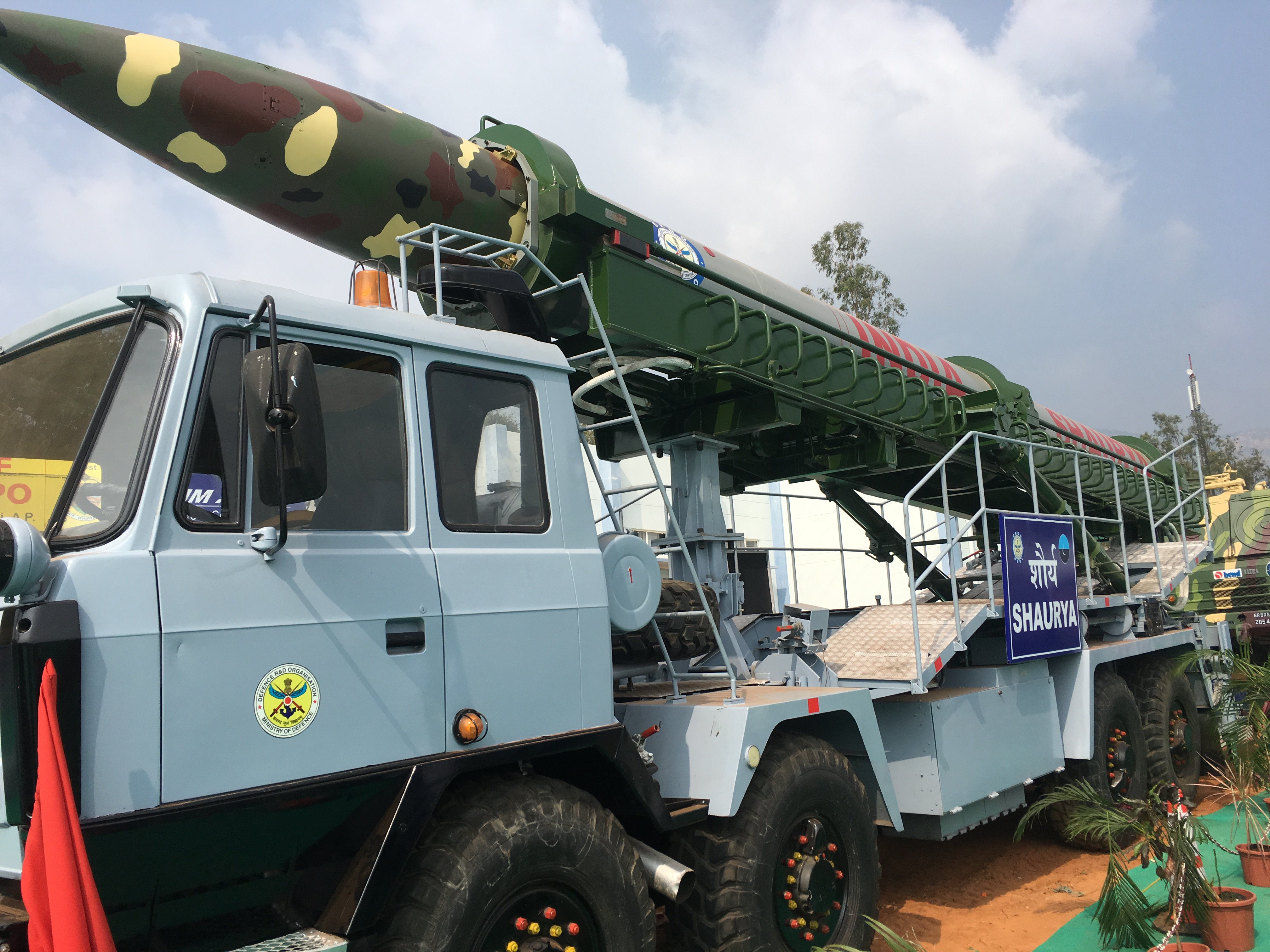 Armed forces of India